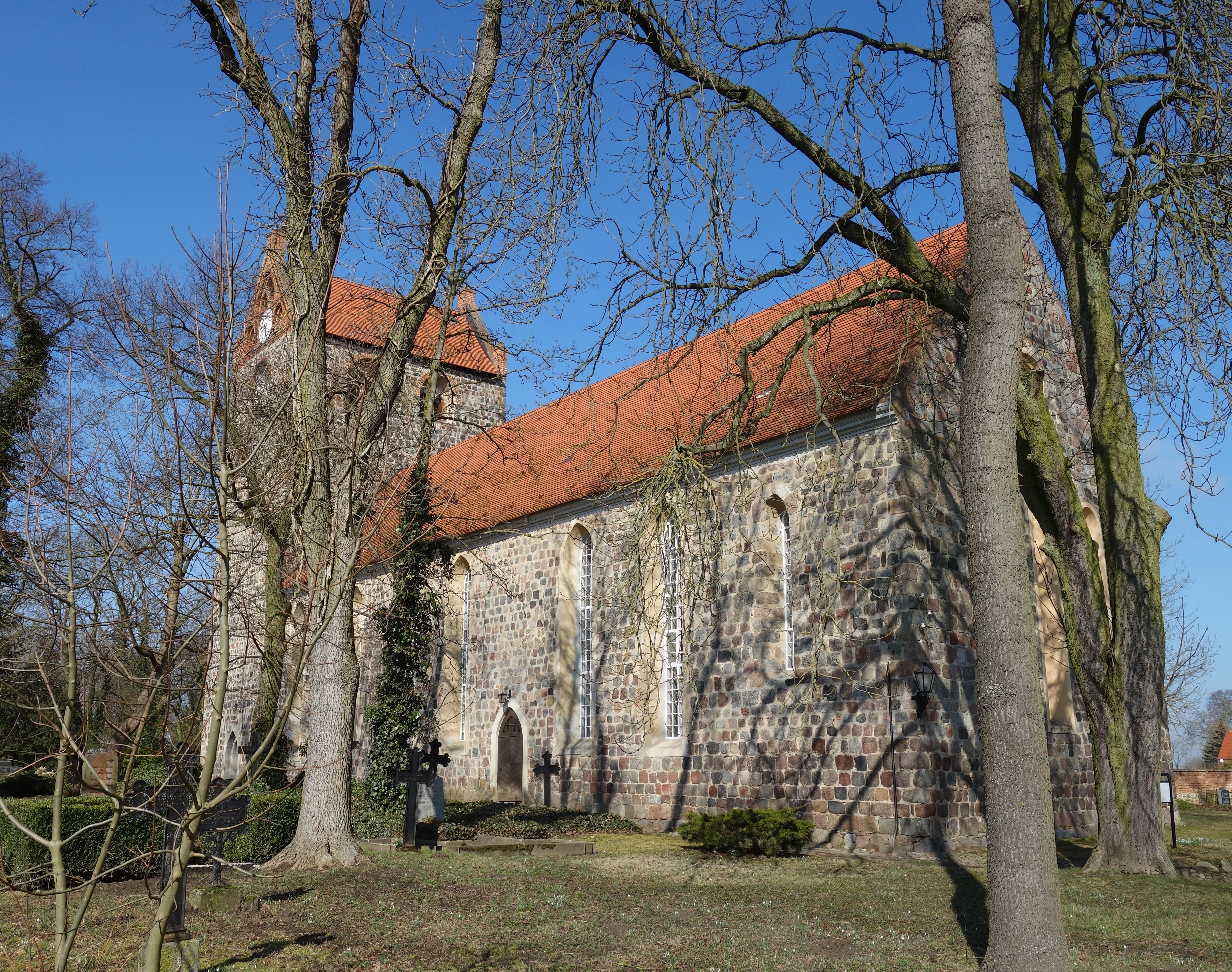 South-eastern view of St.Mary's church in Gramzow , Gramzow municipality , Uckermark district, Brandenburg state, Germany.